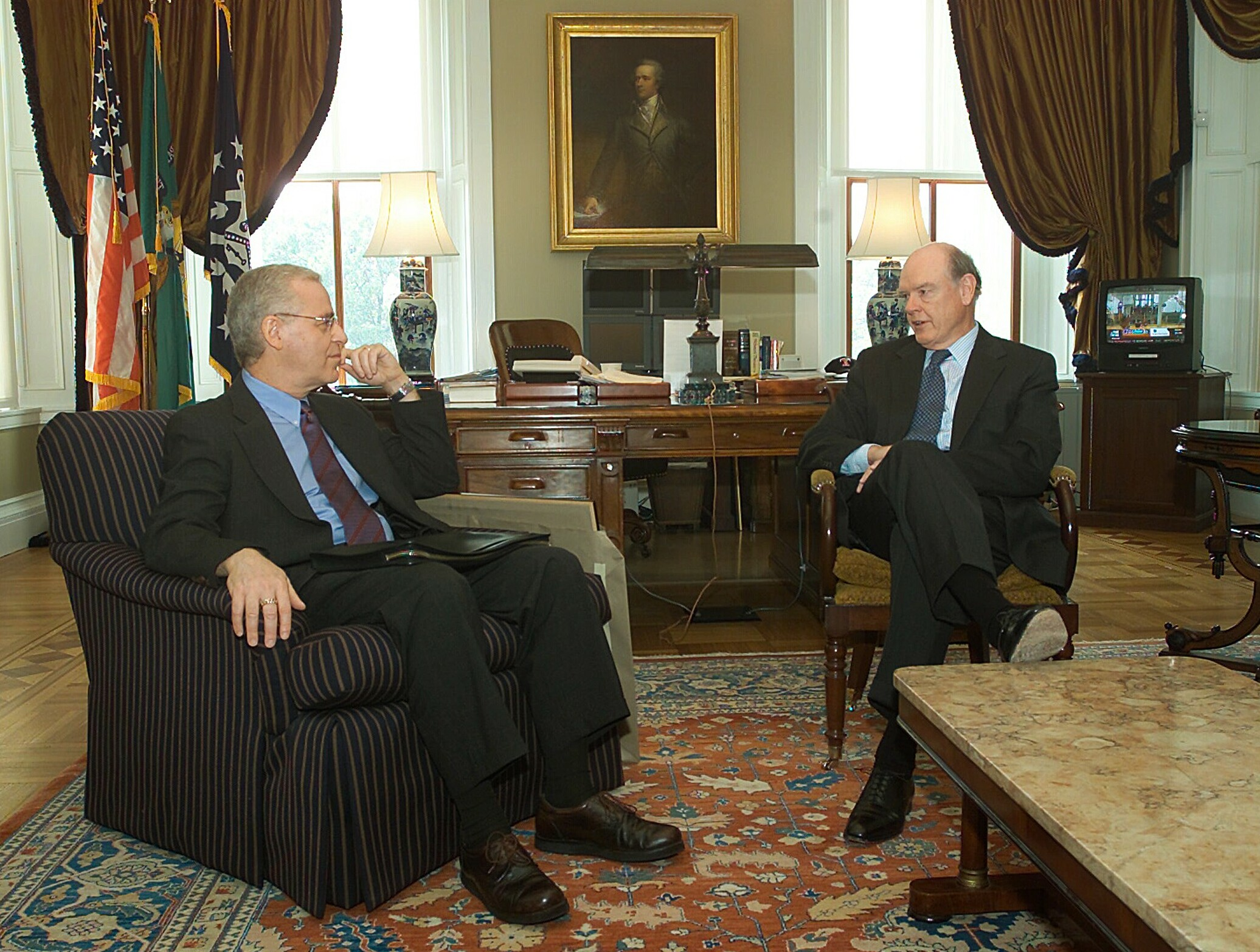 Secretary John Snow Meets with Ron Chernow, Author of "Alexander Hamilton", a biography on the first Secretary of the Treasury.